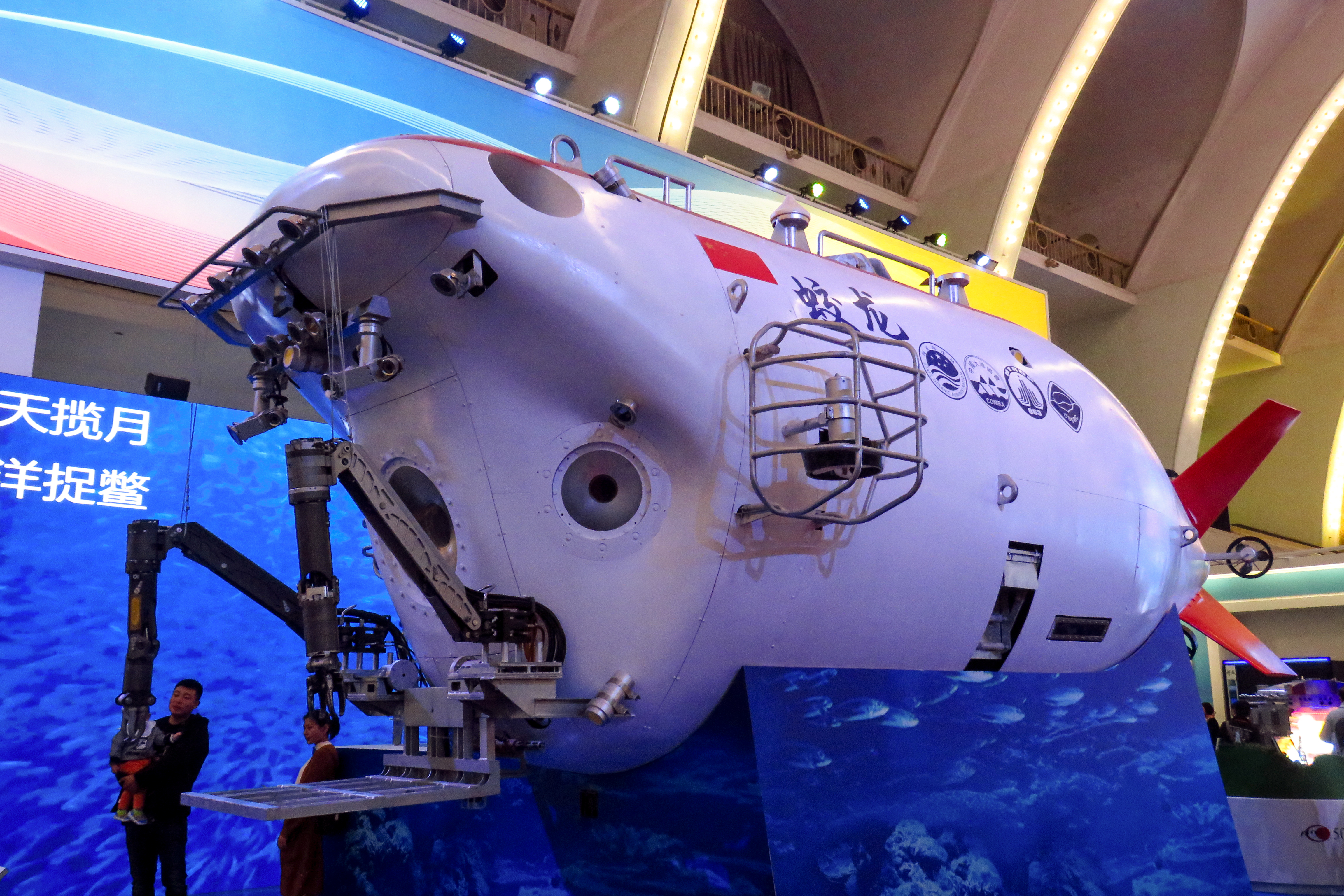 Unlike CR400 series, this is what we seldom have the chance to see...